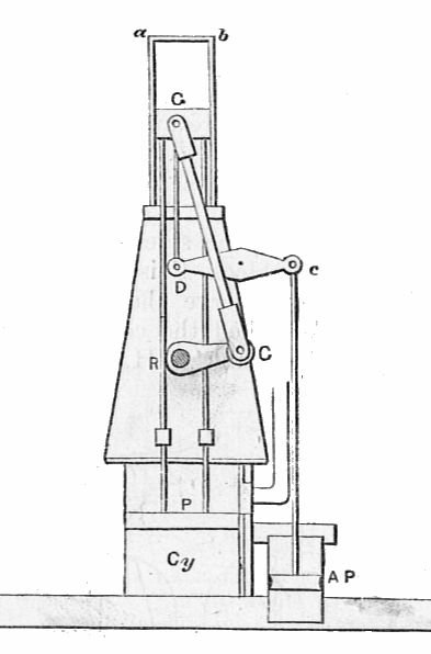 Steeple engine (Steam and the Steam Engine, Evers).jpg